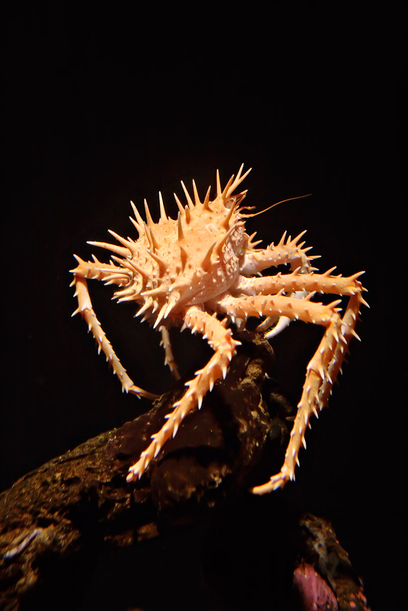 A spiny king crab (Paralithodes californiensis) perches on a rock.